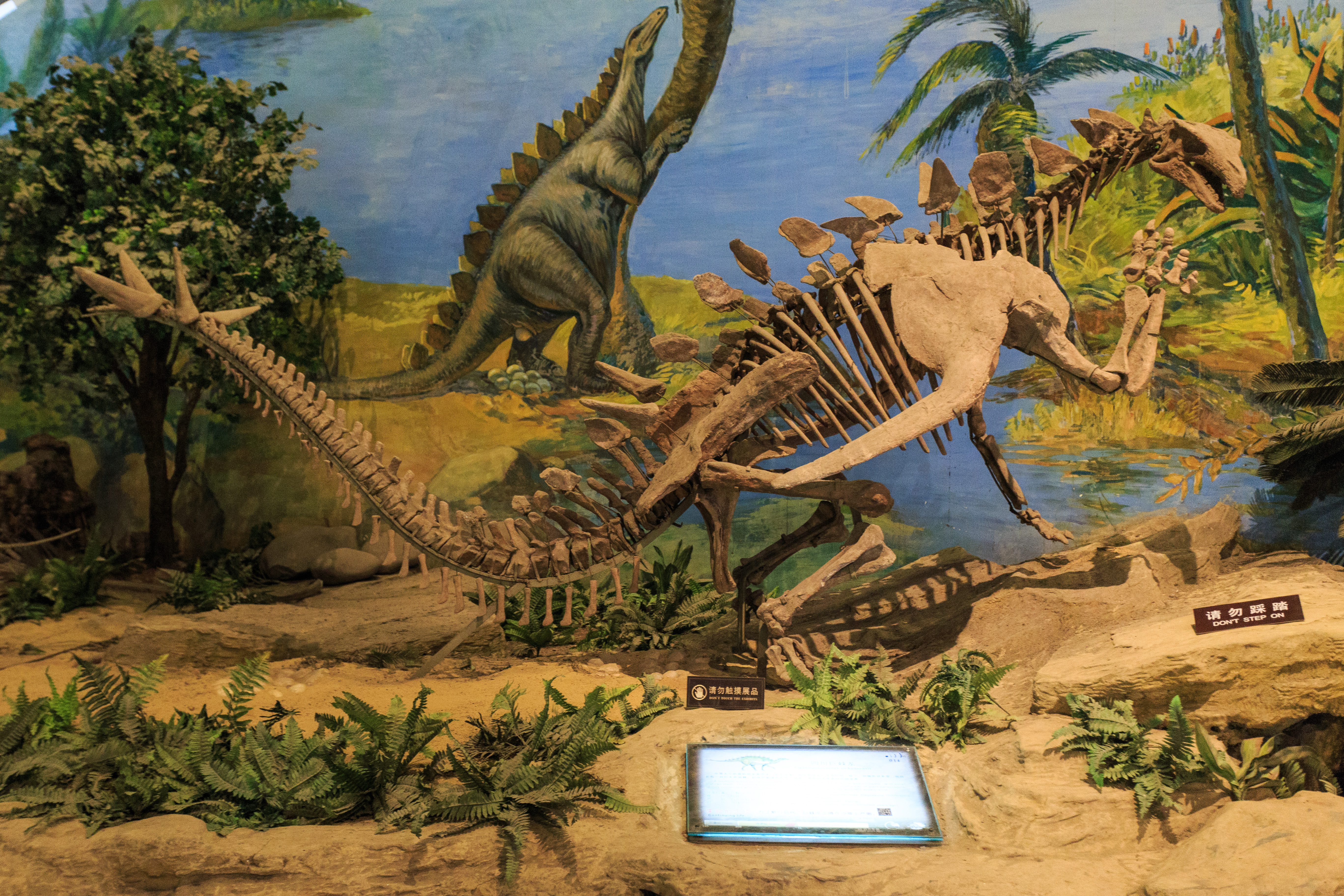 Gigantspinosaurus sichuanensis Symtemtic position: Stegosuridae, Stegosauria, Ornithischia. Locality: Zhongquan, Zigong, Sichuan, China. Age: Late Jurassic (about 150 million years ago).